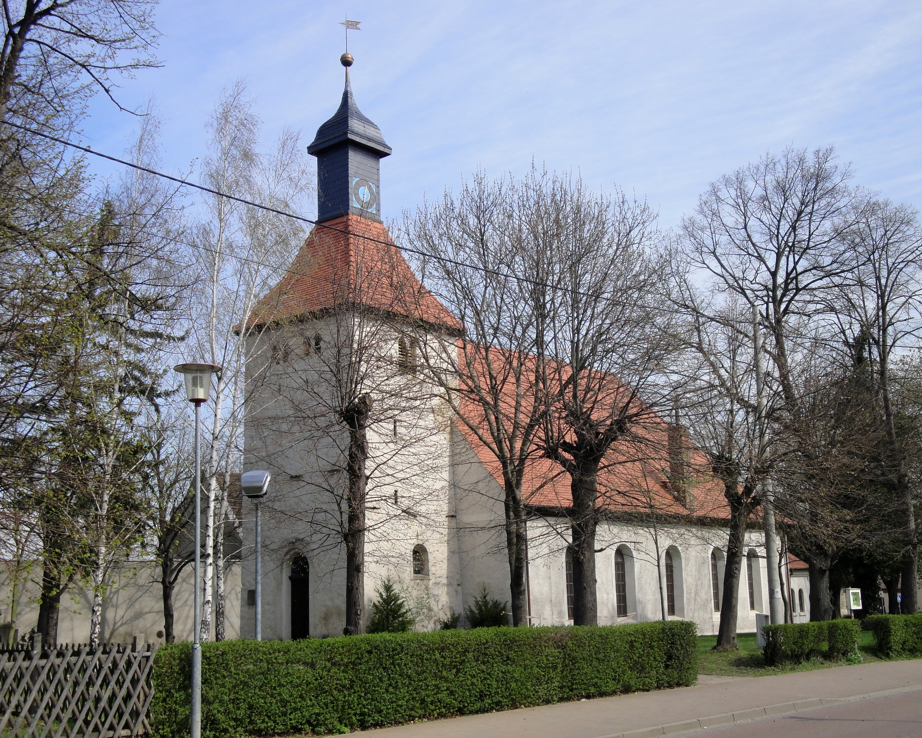 Protestant church in Wulfen (Landkreis Anhalt-Bitterfeld)